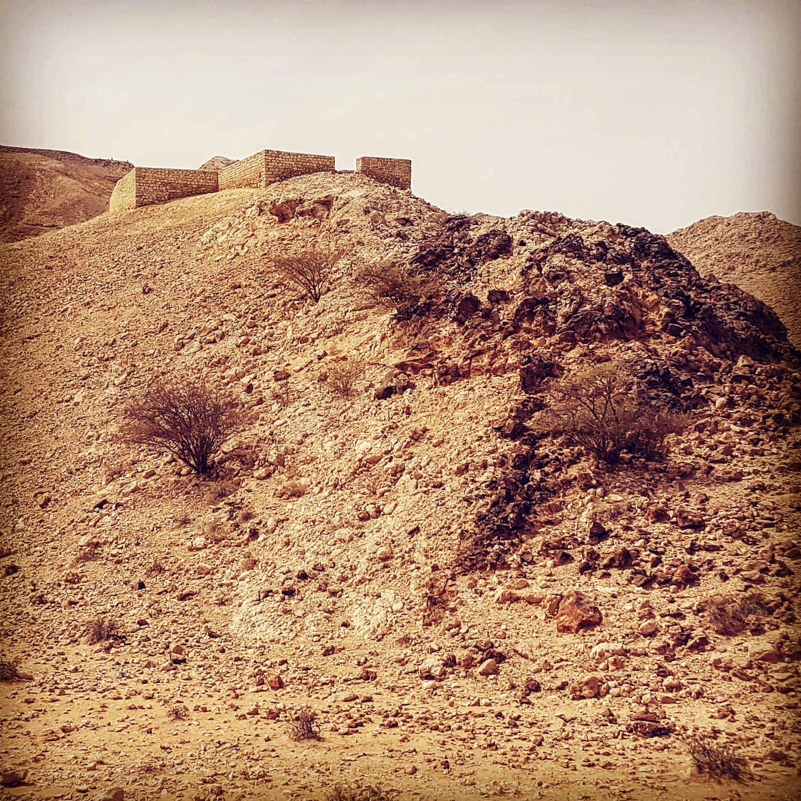 Building at centre of burial ground at Jebel Al-Buhais, first discovered in 1973